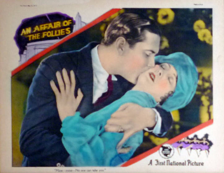 Lobby card for the American romantic drama film An Affair of the Follies (1927).